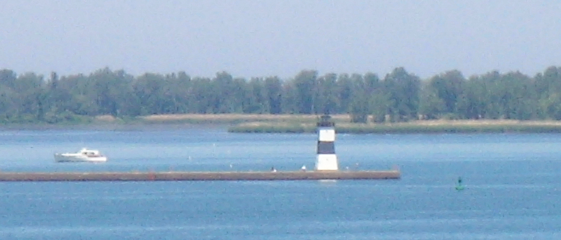 This photograph of the North Pier Light at Erie, Pennsylvania was taken on 12 June 2007 by Pat Noble (self).